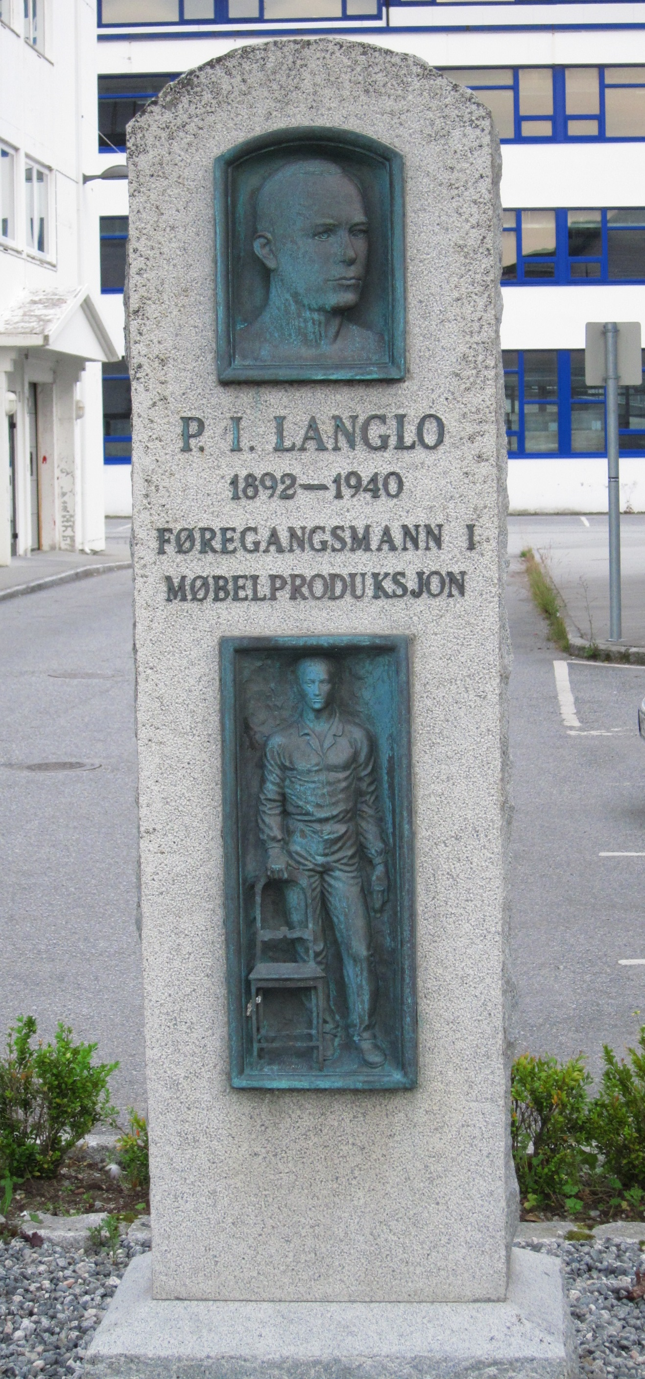 PI Langlo memorial in Stranda, Norway.